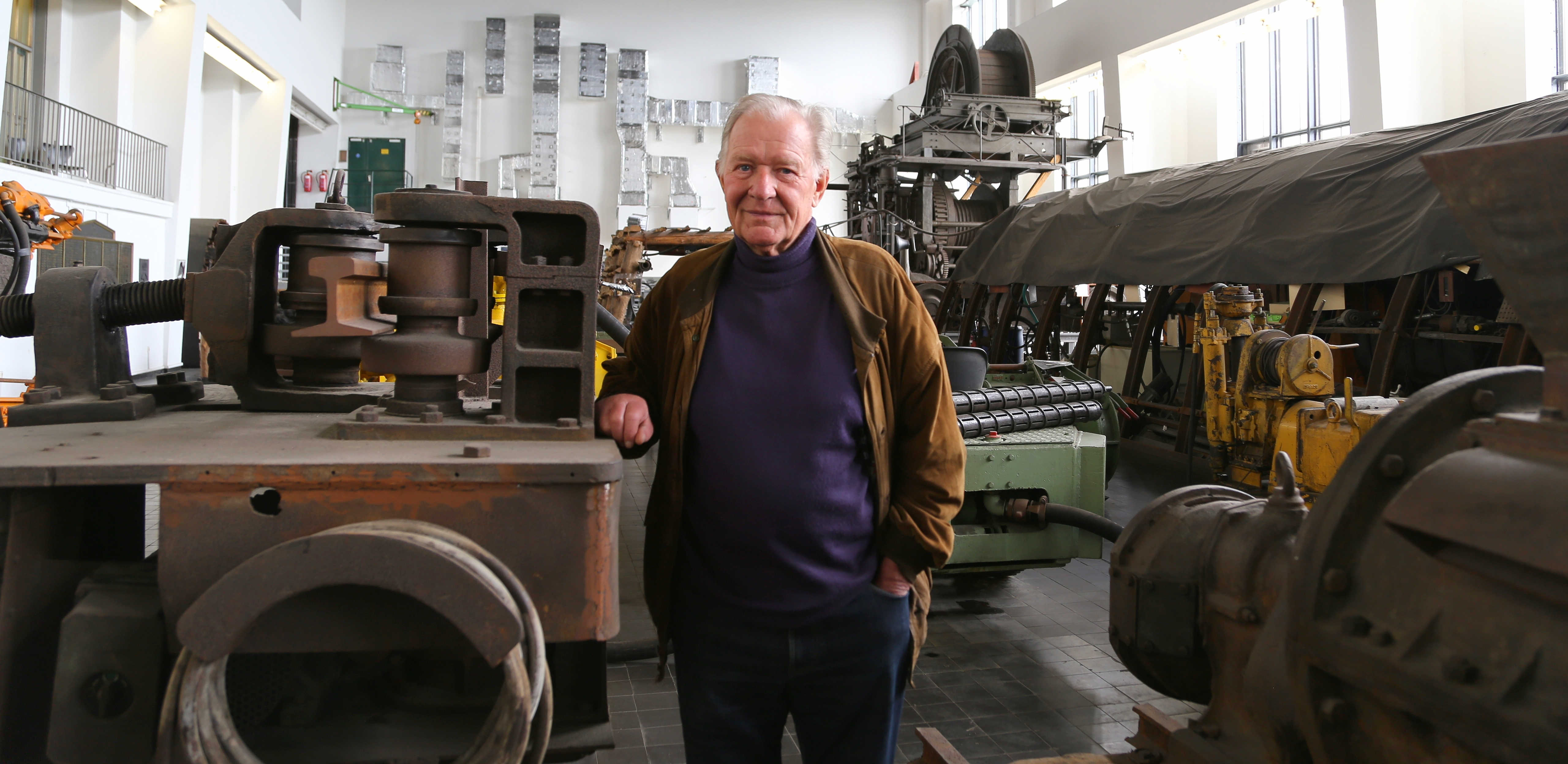 Hans Röhrs, founder of the Ibbenbüren Mining Museum (Bergbaumuseum Ibbenbüren), at the museum in Ibbenbüren, Kreis Steinfurt, North Rhine-Westphalia, Germany.